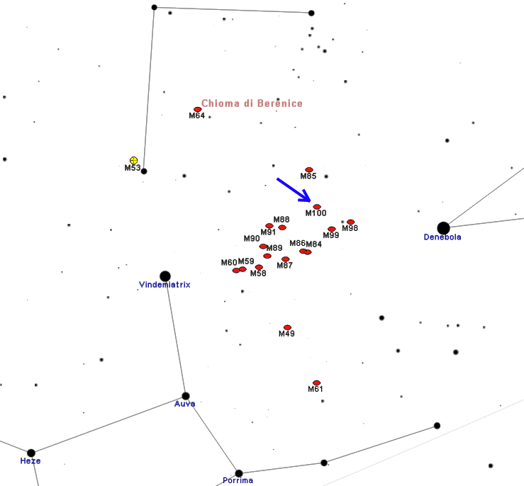 Map of M100